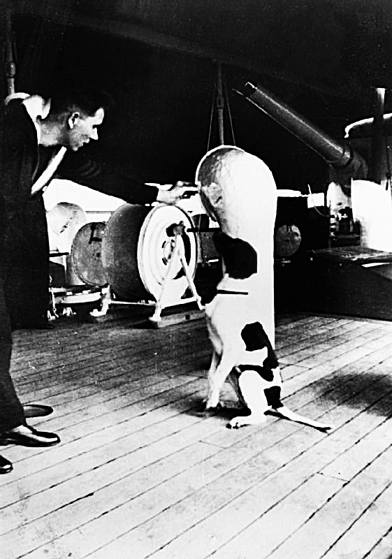 IWM Caption: Judy sits up and listens to a sailor's commands on the deck of HMS GRASSHOPPER